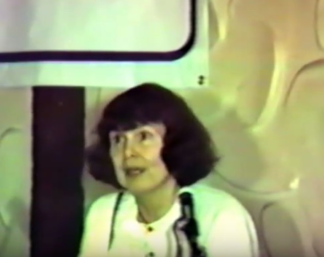 American author Joan Kennedy Taylor speaking at a Libertarian Party of New York conference in 1981.